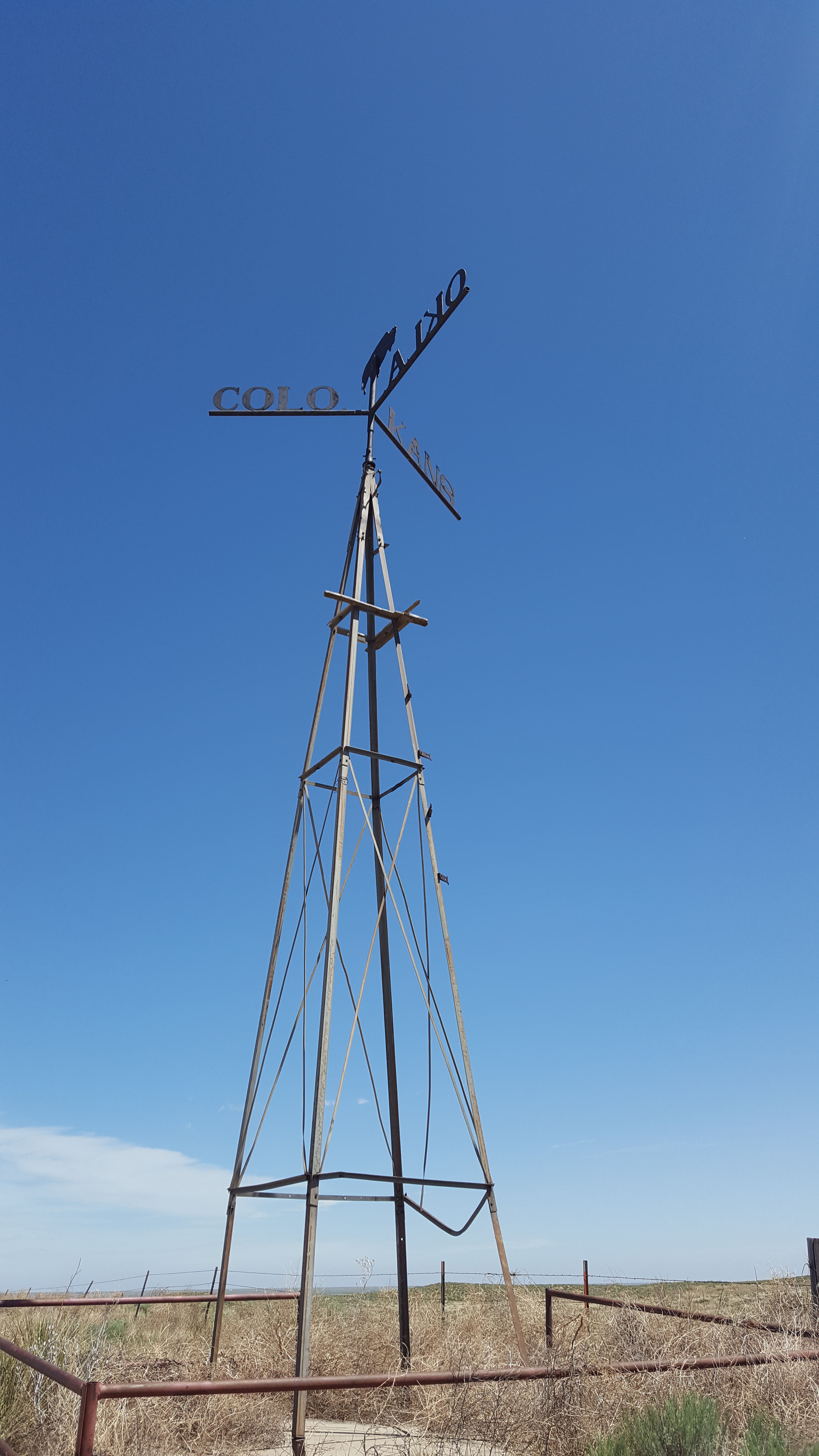 Windmill marking the tripoint of Colorado, Kansas and Oklahoma, as well as the intersection of three distinct regions of America - the Western United States (Colorado), Midwestern United States (Kansas) and South Central United States (Oklahoma).